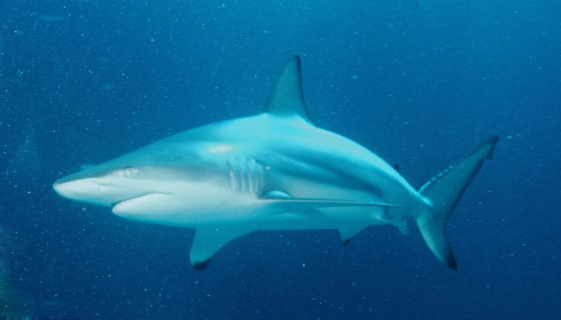 Description Caraibische zwartpunthaai (Carcharhinus limbatus), Bahamas (Walkers Cay) Date2000SourceOwn workAuthorAlbert KokPermission(Reusing this file) Public domain Caraibische zwartpunthaai (Carcharhinus limbatus), Bahamas (Walkers Cay)